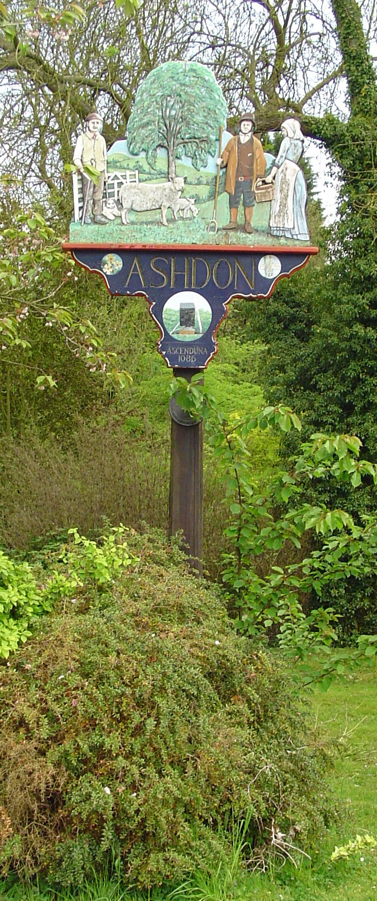 Signpost in Ashdon